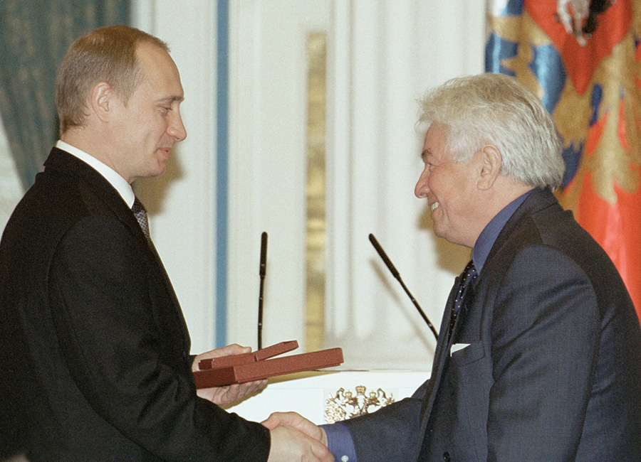 CATHERINE'S HALL, THE KREMLIN, MOSCOW. President Putin awarding State Prizes and President's Prizes. With writer Vladimir Voinovich.